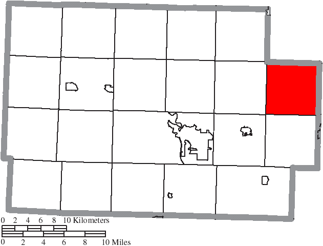 Map of the municipal and township boundaries of Coshocton County, Ohio, United States, as of the 2000 census, with the location of Adams Township highlighted. Township borders are shown only in unincorporated areas in order to differentiate incorporated and unincorporated areas more clearly.